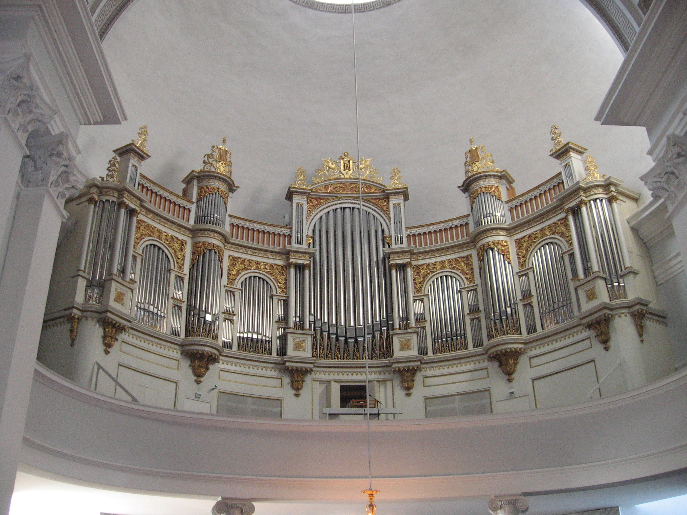 The organ of Helsinki Cathedral